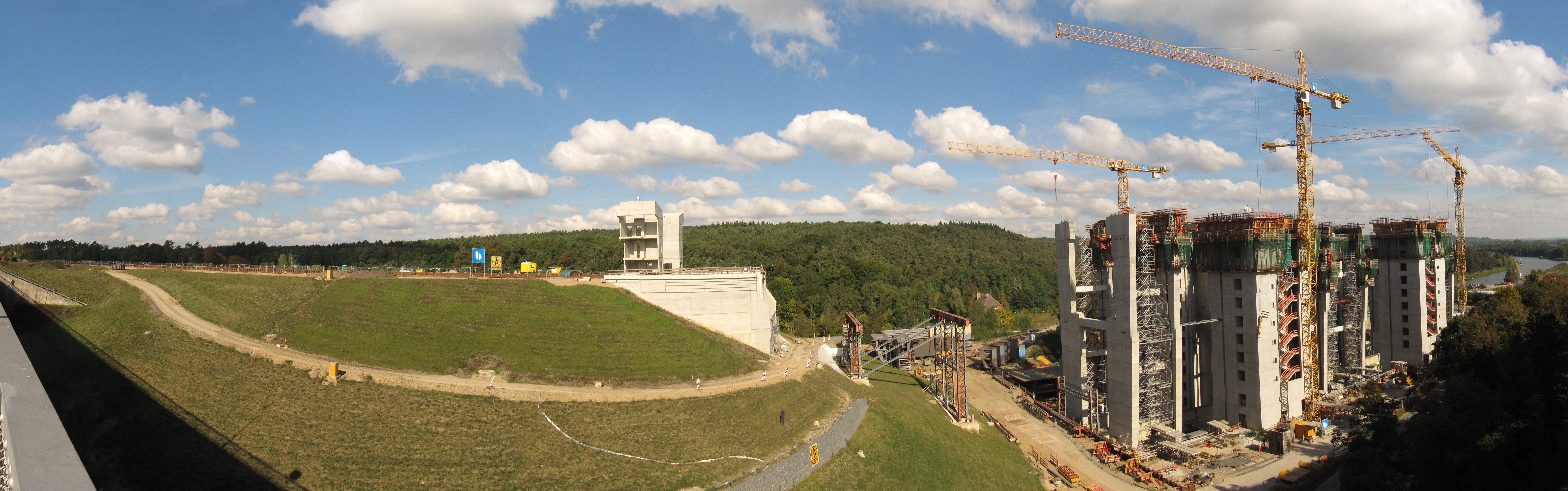 Ship canal lift Niederfinow-Nord under construction September 2013